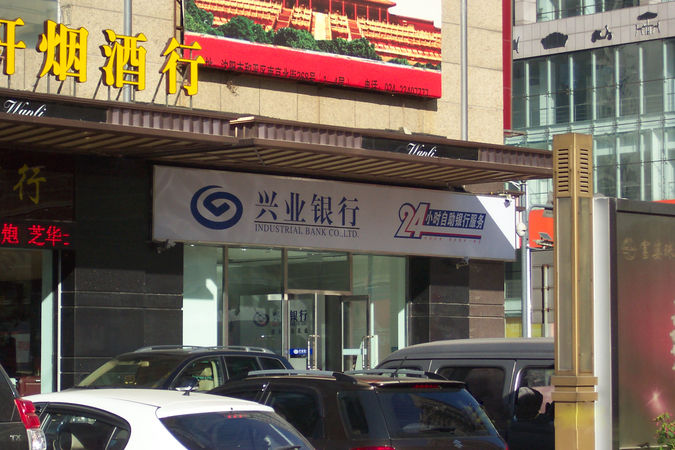 Industrial Bank Co., Ltd. Branch in Shenyang